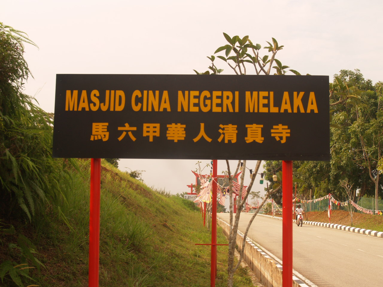 The look of the signboard in front of the mosque.